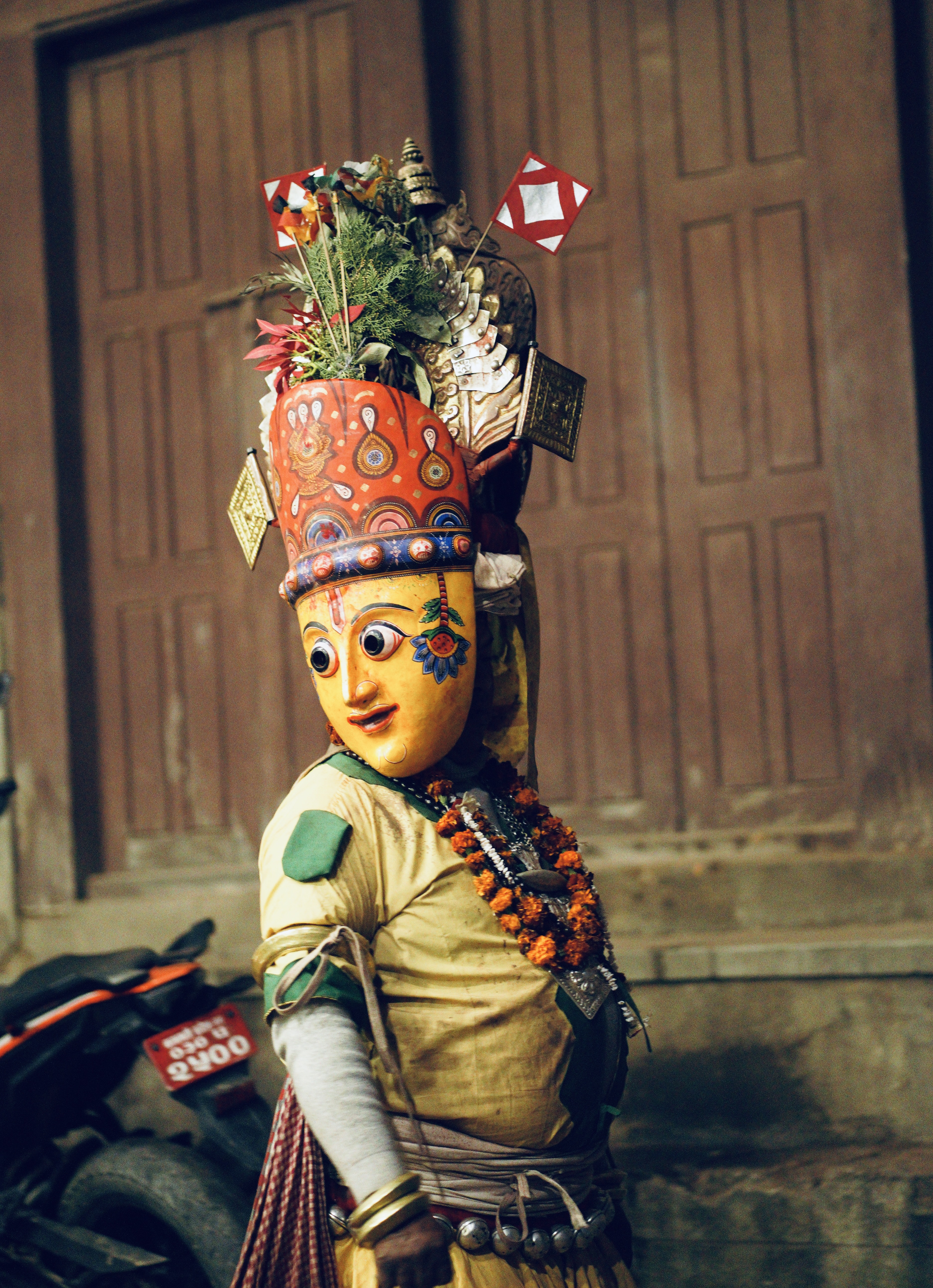 The Nine forms of Durga celebrated during Navaratri are; Shailaputri, Brahmacharini, Chandraghanta, Kushmanda, Skandamata, Katyayini, Kaalratri, Mahagauri and Siddhidatri.